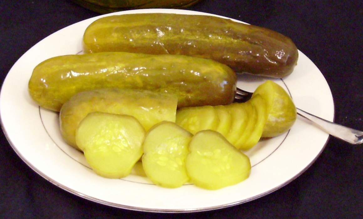 A plate of Vlasic brand pickled cucumbers